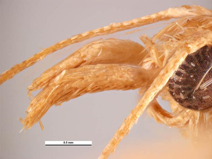 Palps of rice moth (Corcyra cephalonica), female